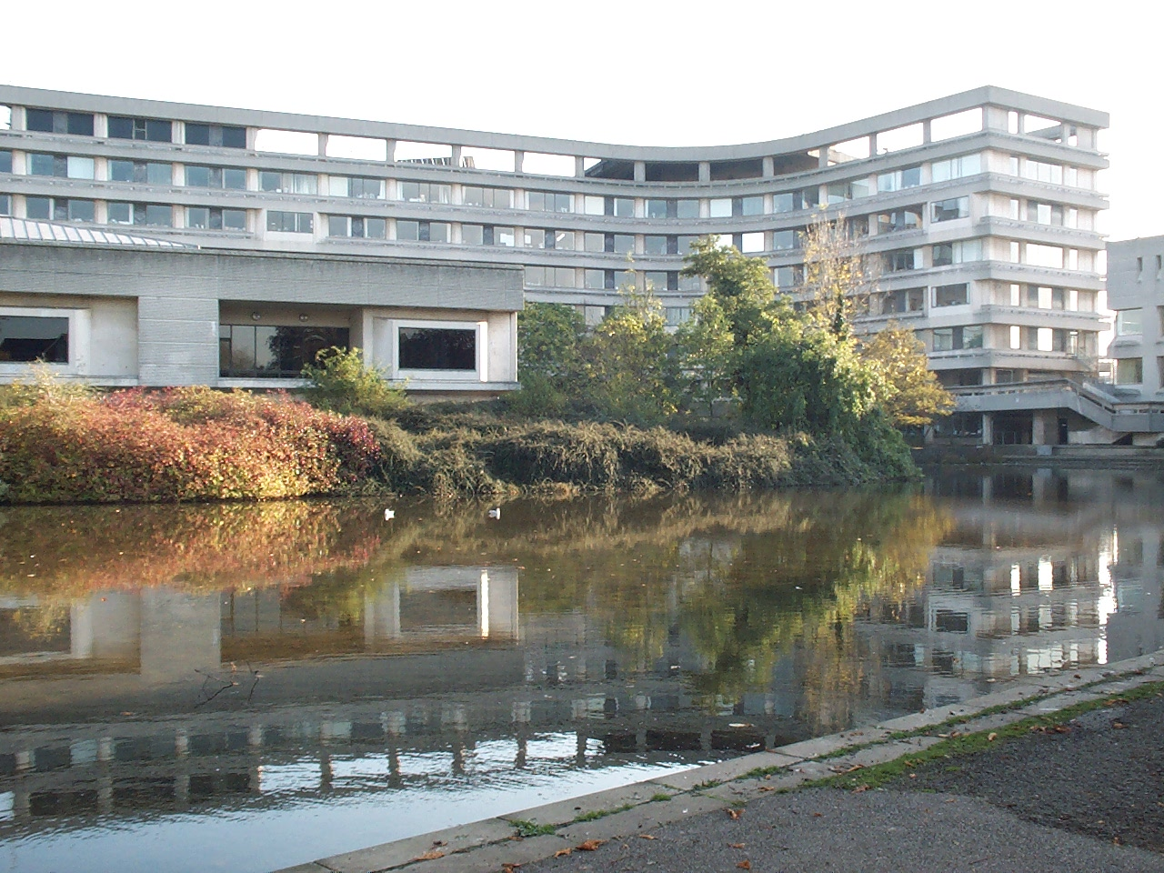 Borough Hall, Bedford, Bedfordshire from behind (the footpath by the river). The view is enhanced by the reflecting pool in the foreground (The building was formerly named County Hall).